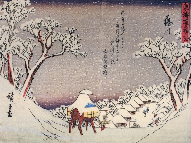 Fujikawa, from the series Fifty-three Stations of the Tôkaidô Road (Tôkaidô gojûsan tsugi), also known as the Kyôka Tôkaidô.